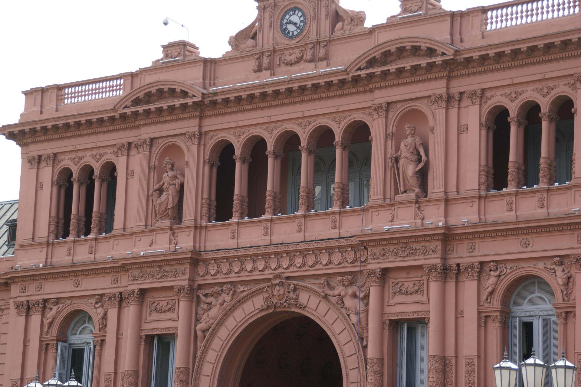 Casa Rosada in Buenos Aires, Argentina